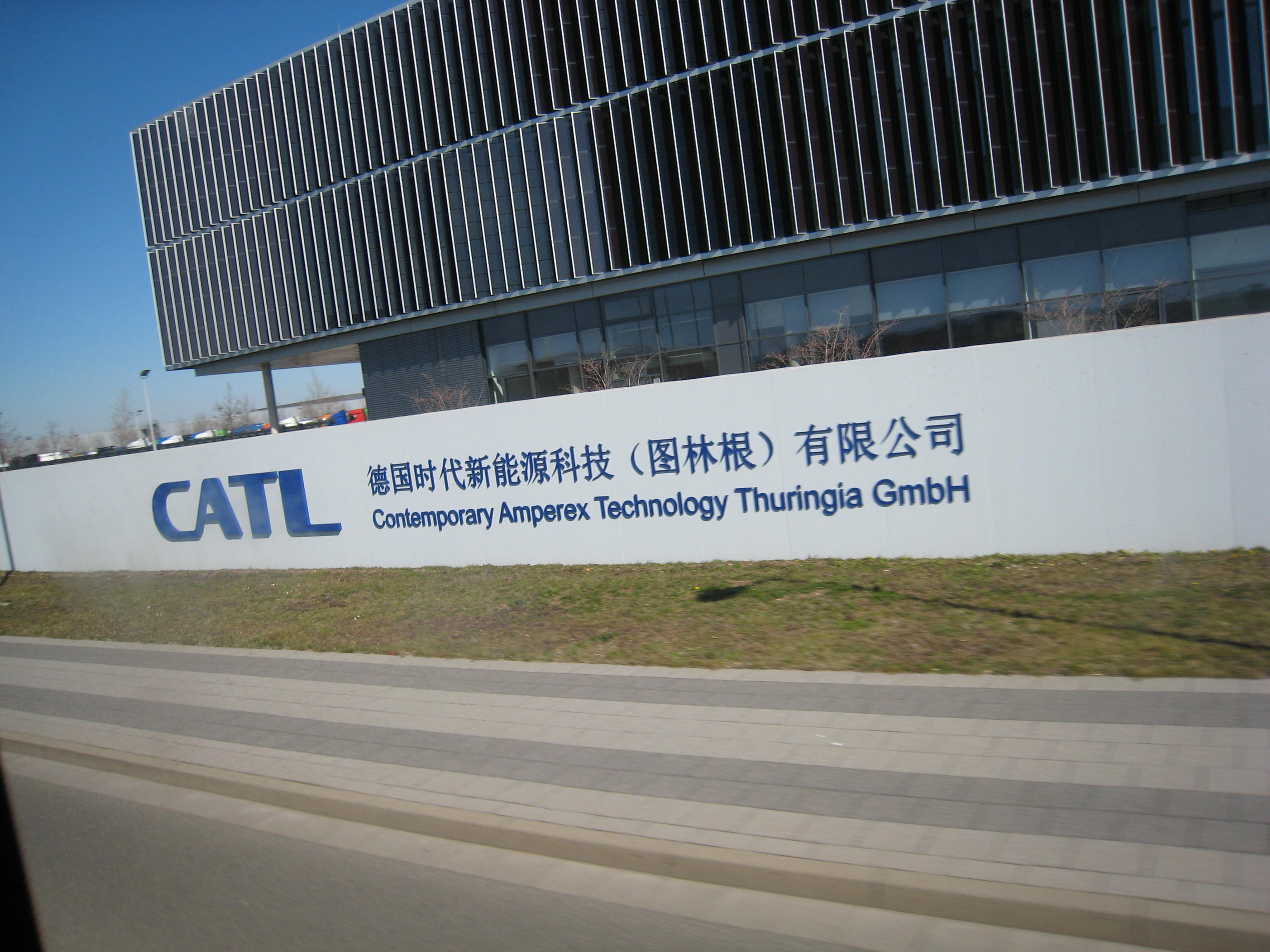 CATL in Arnstadt